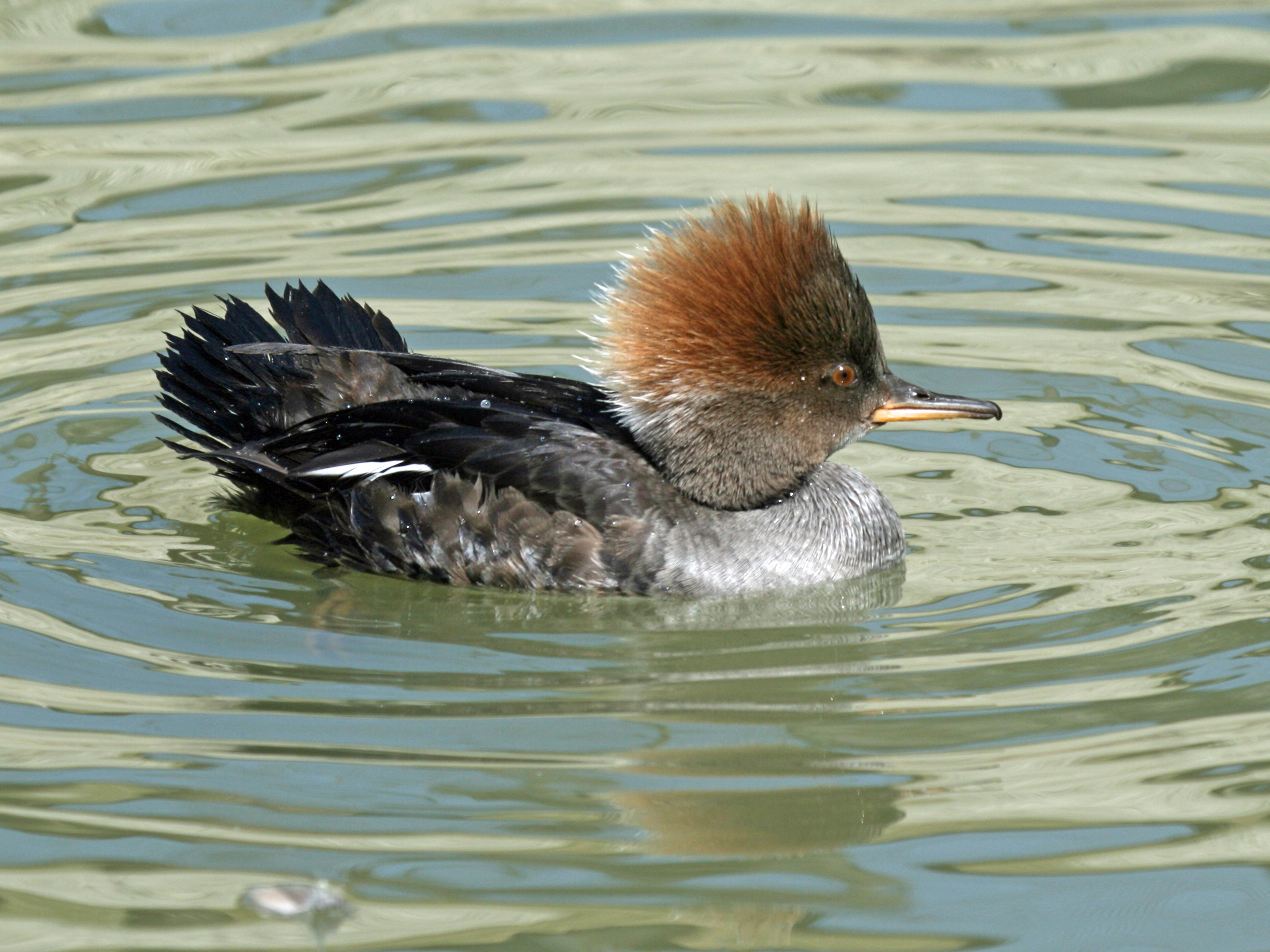 ♀ Hooded Merganser (Lophodytes cucullatus) at Sylvan Heights Waterfowl Park in Scotland Neck, North Carolina.